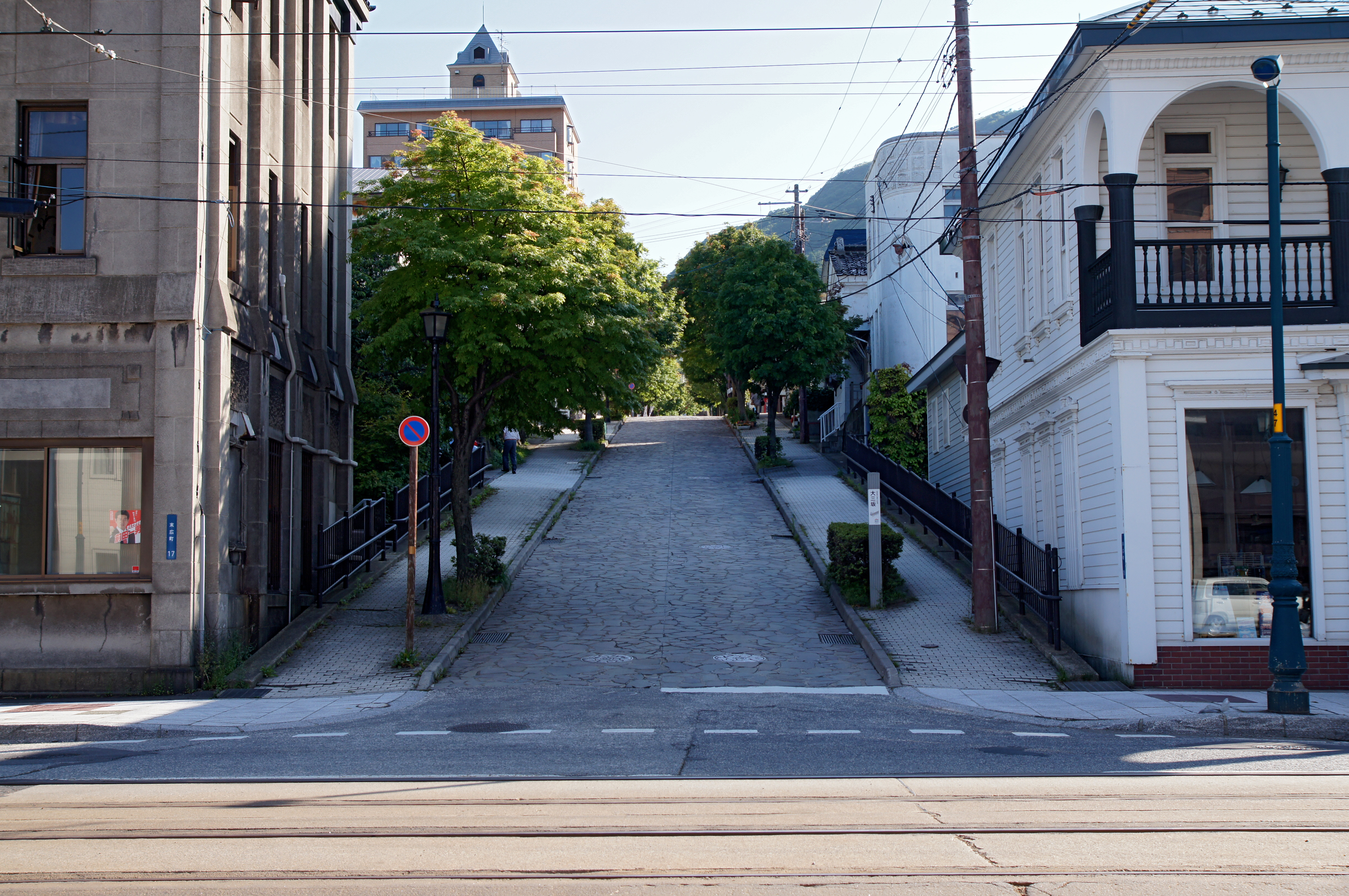 Daisan-zaka Slope, Motomachi, Hakodate, Hokkaido prefecture, Japan